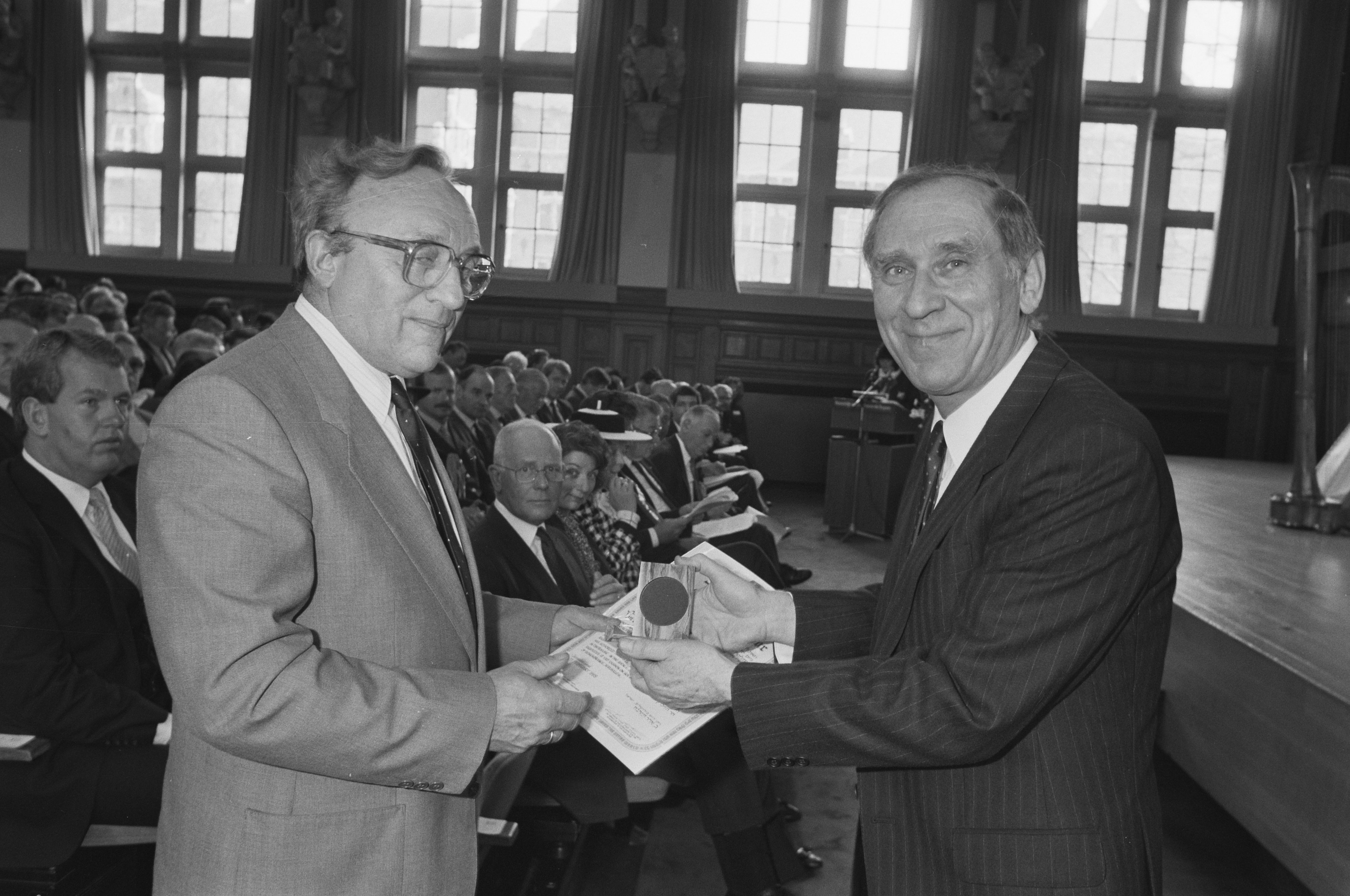 25th Yad Vashem ceremony in the Netherlands, 12 April 1988